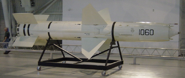 Surface to Air missile. This missile is huge. Although ramjet powered, this is not a cruise missile. The example shown is missing the booster stage. Below is an example on the shipboard launcher.